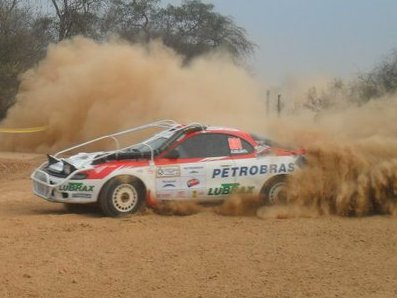 Alejandro Galanti and Marcelo Toyotoshi on a Toyota Celica GT-Four RC ST185 in the Trans-Chaco Rally 2010